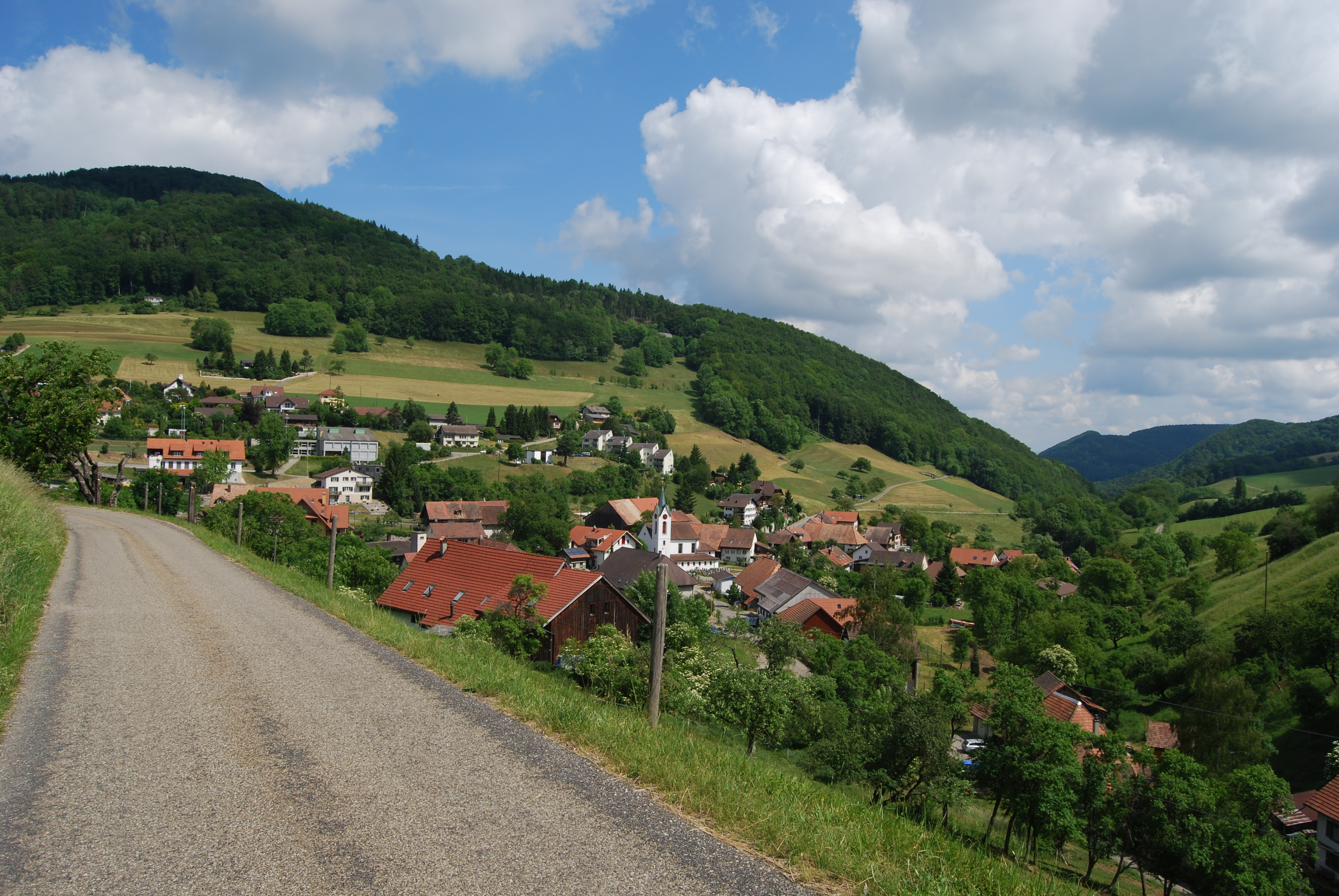 Wisen with mount Wisenberg at the back, canton of Solothurn, Switzerland